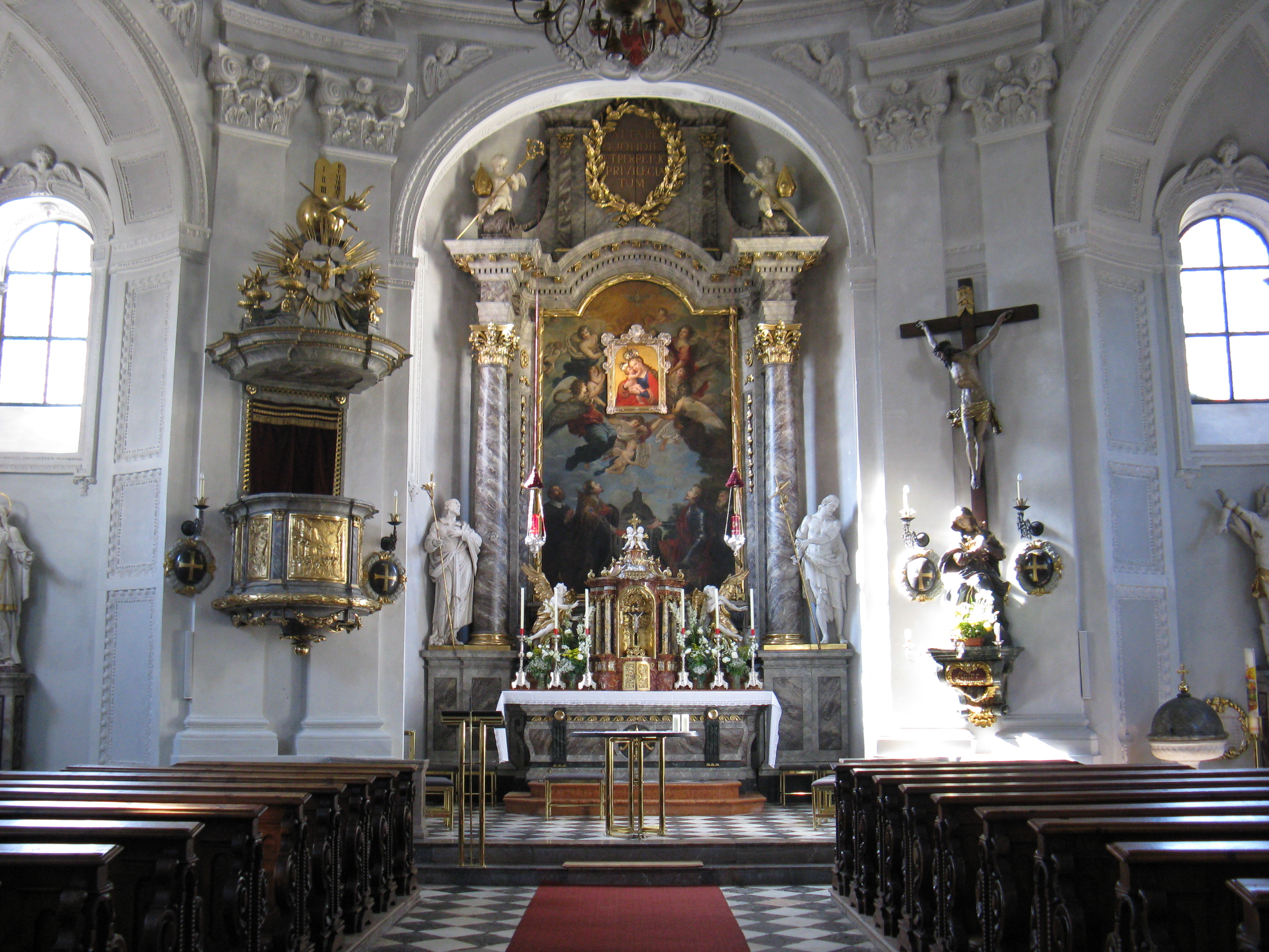 chancel of Mariahilf church in Innsbruck, Austria